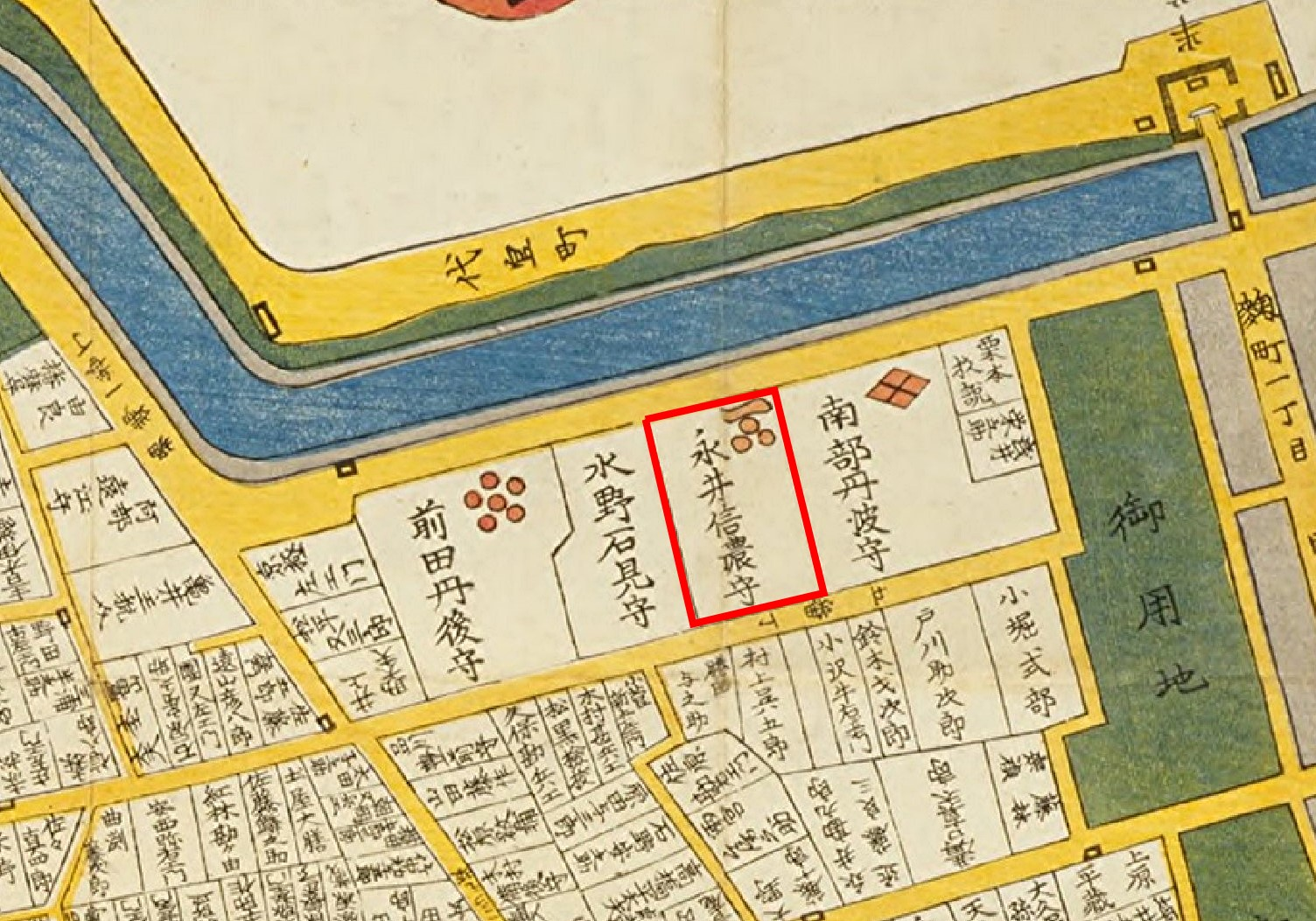 Residence of Nagai Kujira clan at Edo